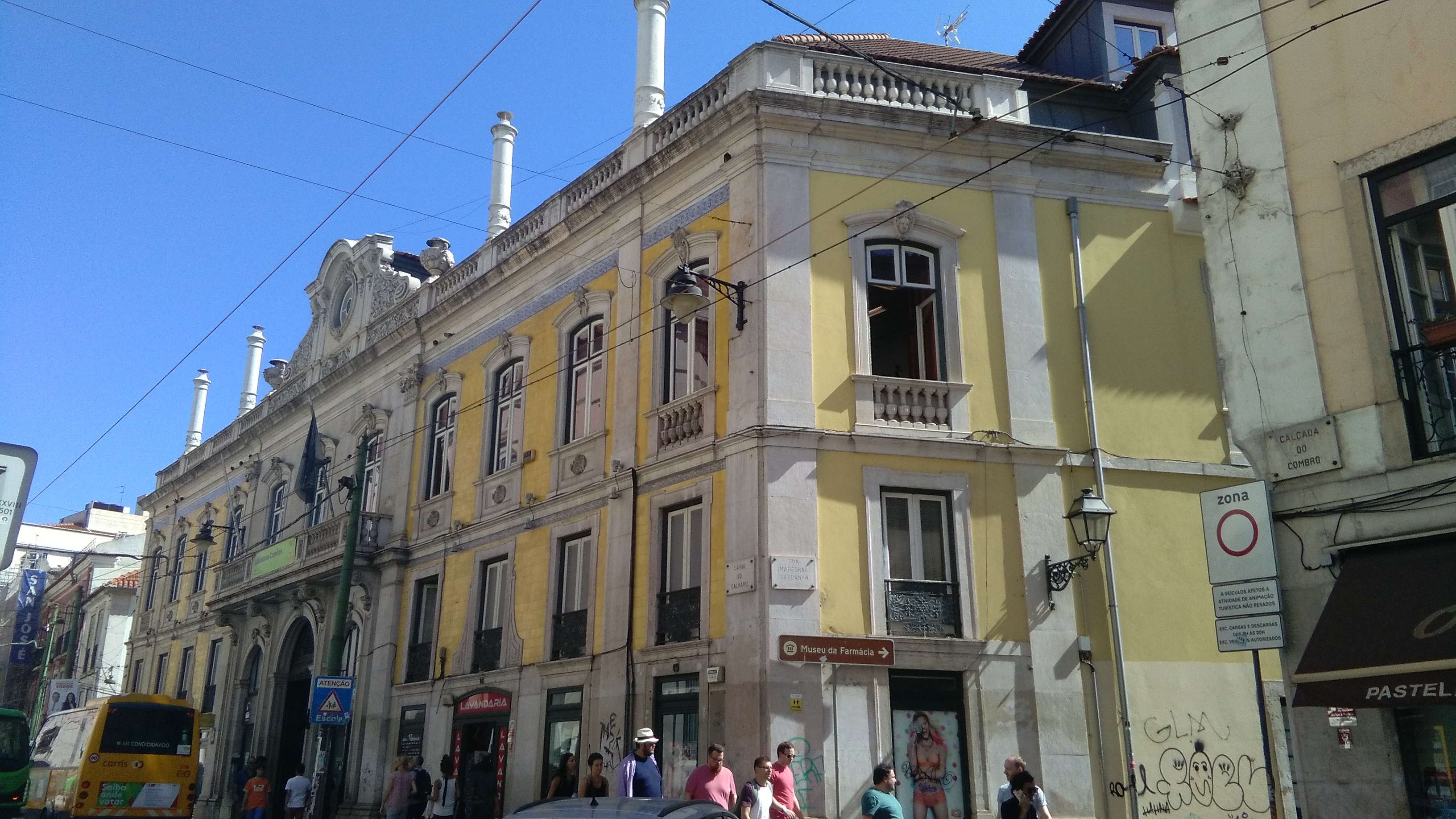 Exterior view of the Valada-Azambuja Palace in LIsbon, Portugal.